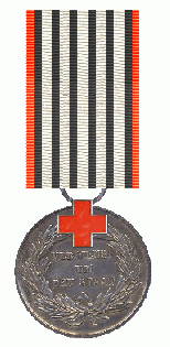 Prussian decoration "Allgemeines Ehrenzeichen" 1870 with Cross of Geneva